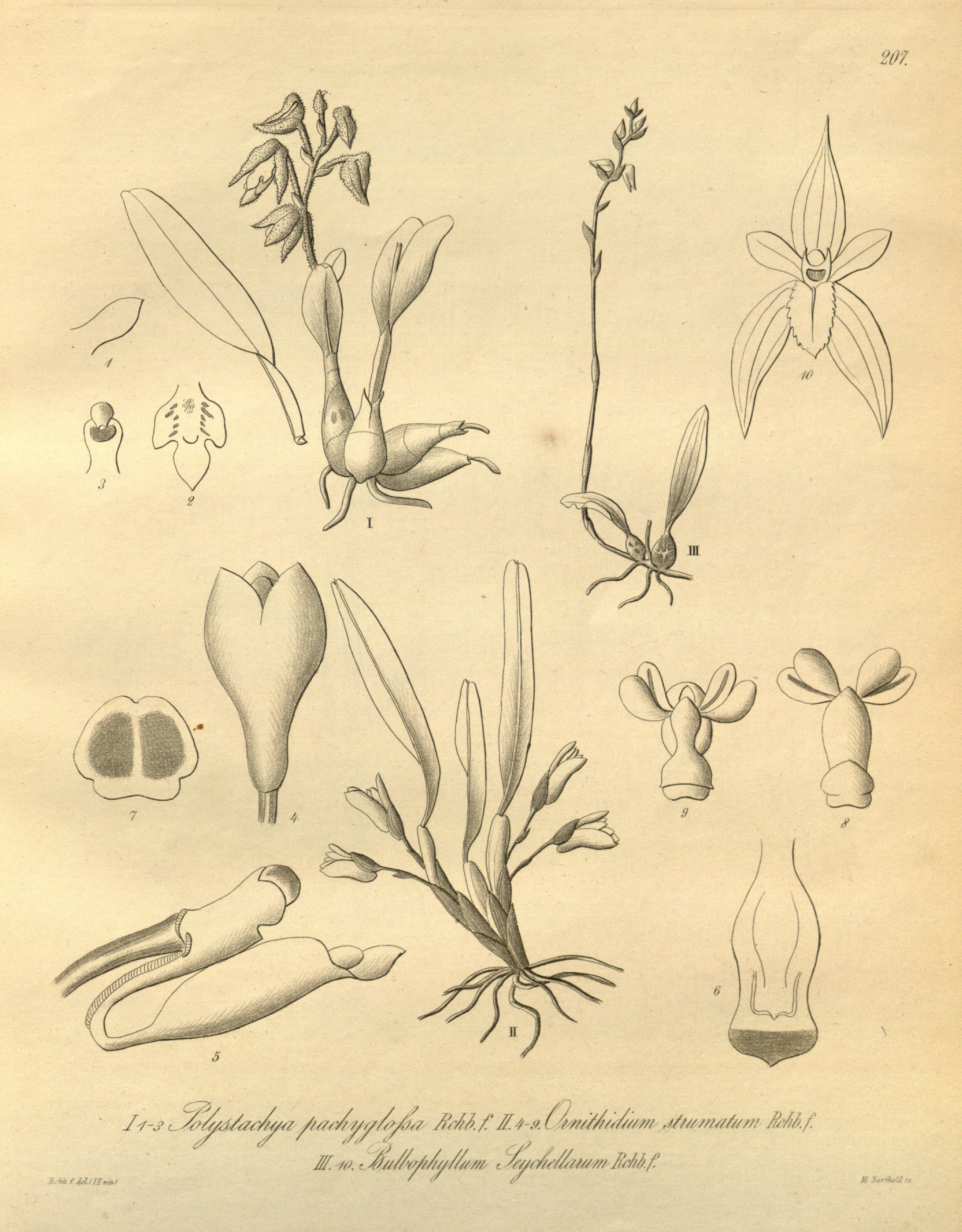 Illustration of I, 1-3. Polystachya sandersonii (as syn. Polystachya pachyglossa) II, 4-9. Camaridium strumatum (as syn. Ornithidium strumatum) III, 10. Bulbophyllum intertextum (as syn. Bulbophyllum seychellarum)